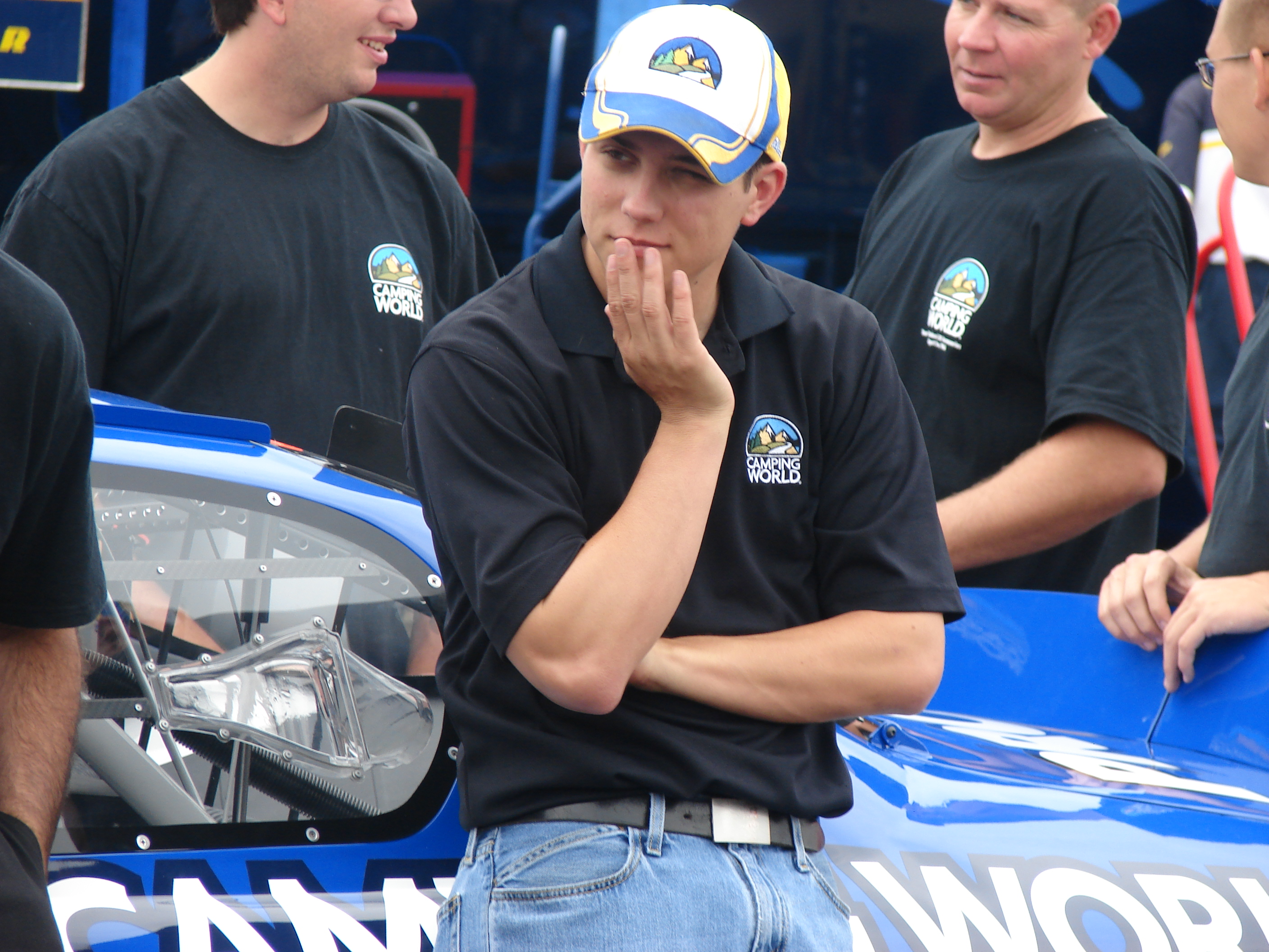 Cale Gale standing, waiting for the #33 of Kevin Harvick's car to pass insepection at New Hamnpshire Motor Speedway in June 2008. Picture taken by Eric Sturrock. Summary Cale Gale standing, waiting for the #33 of Kevin Harvick's car to pass insepection at New Hamnpshire Motor Speedway in June 2008. Picture taken by Eric Sturrock.